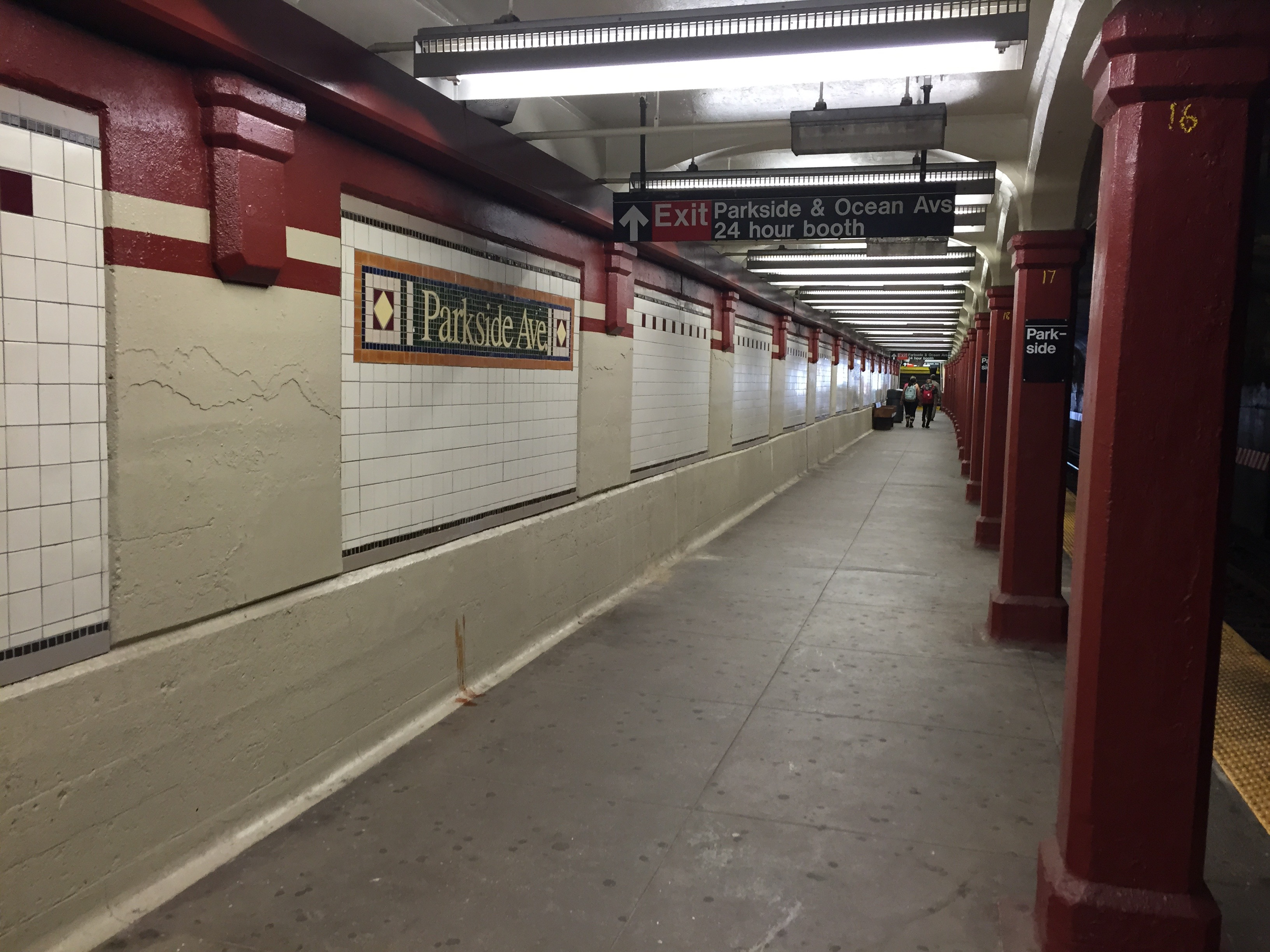 Coney Island bound platform (tunnel section) of Parkside Avenue on the Q.